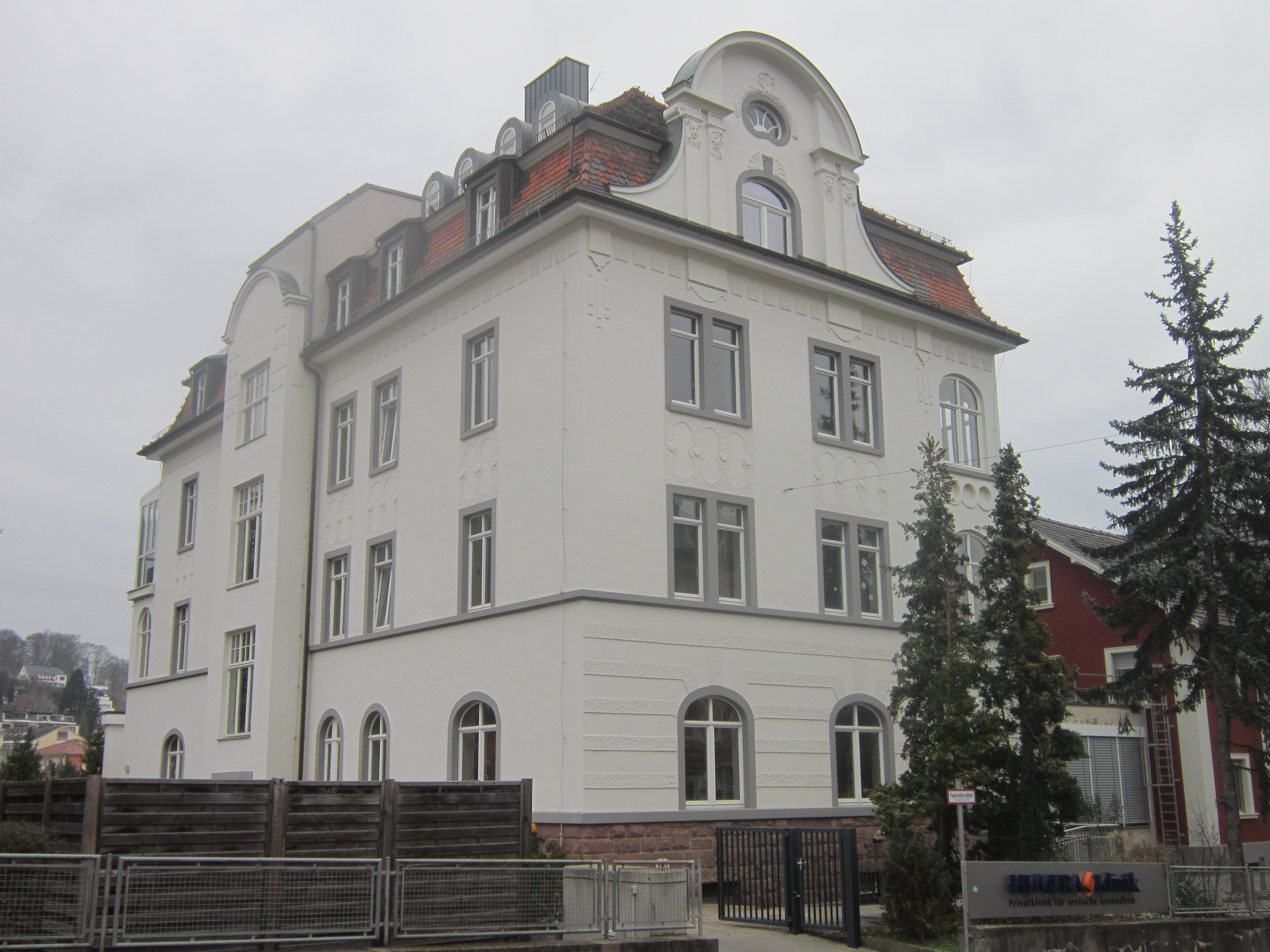 Building in the German spa town of Bad Kissingen in Lower Franconia (Bavaria) (Address: Schönbornstraße 16).